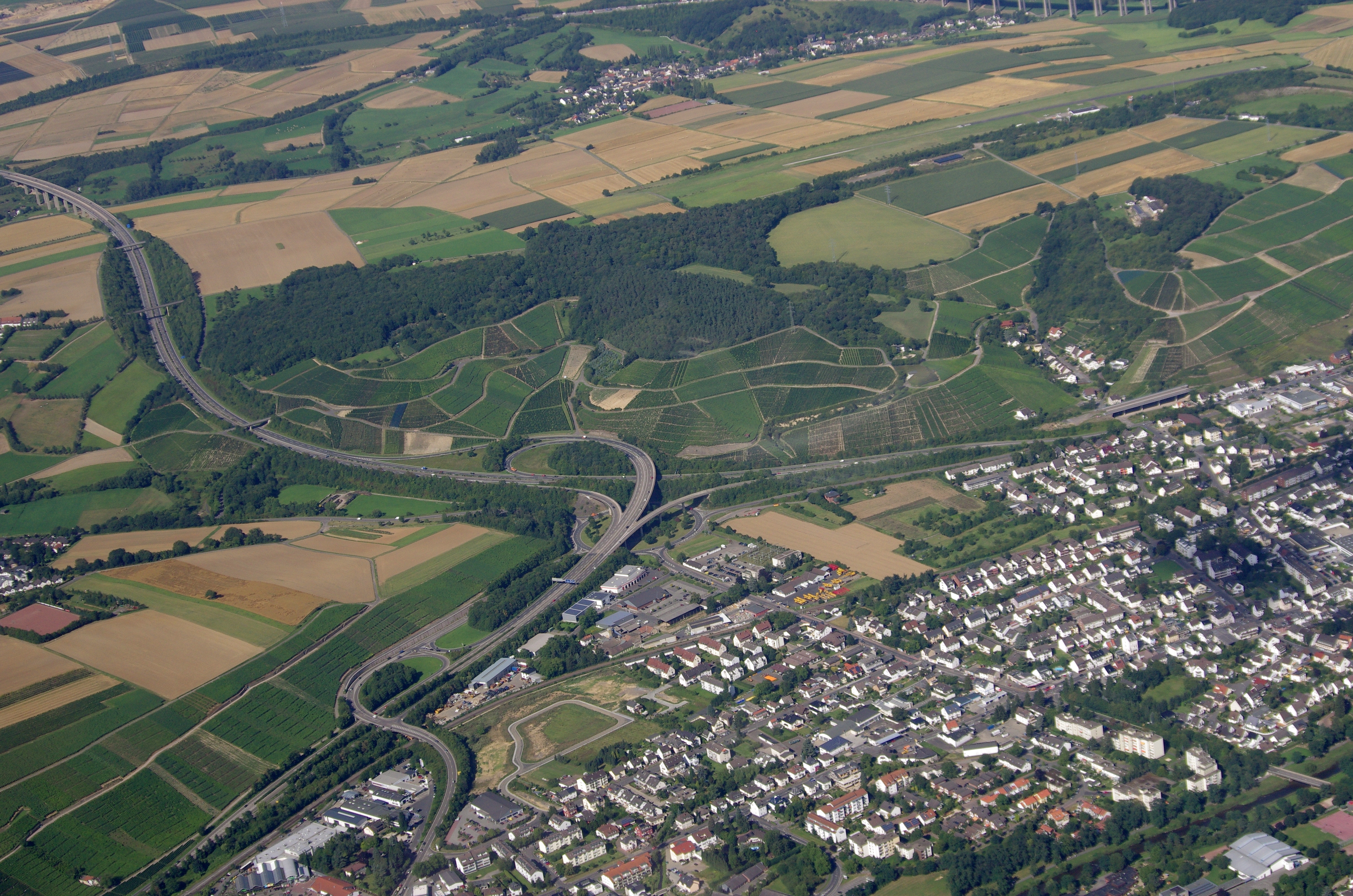 Aerial view of Bad Neuenahr, Germany. The highway coming from the top left corner is the A 573, meeting the B 267 (coming from the bottom left corner) and the B 266 (coming from the right; under construction) at the center of the image. The aerodrome Bad Neuenahr-Ahrweiler (ICAO: EDRA) can be seen in the background.